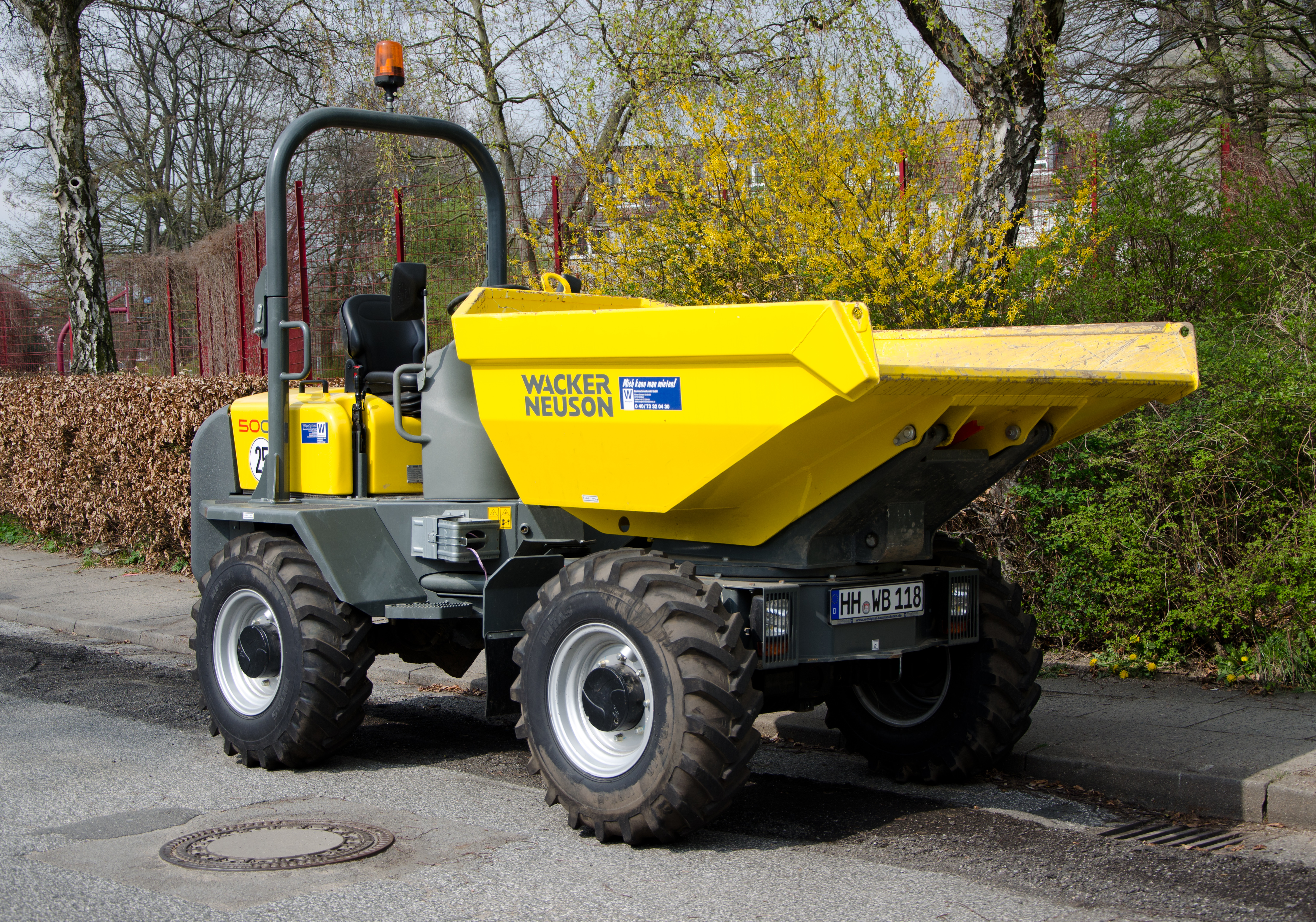 Wacker Neuson 5001s